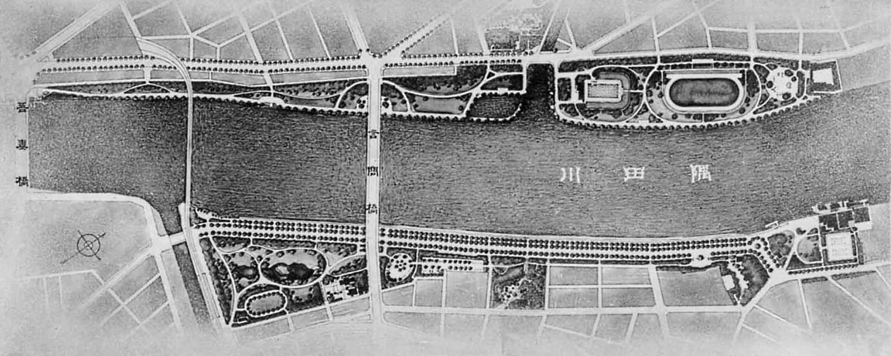 A plan of Sumida Park,Tokyo,Japan.